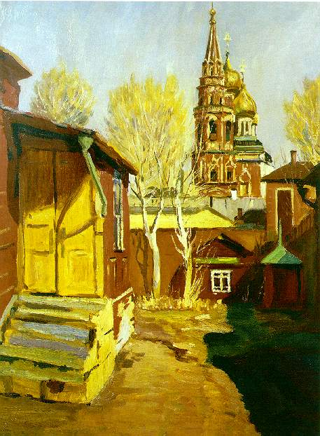 S.A. Vinogradov Title